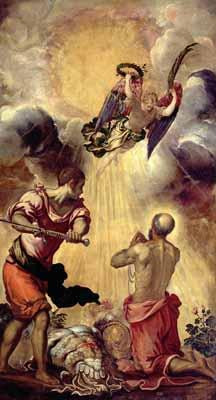 Execution of Saint Paul